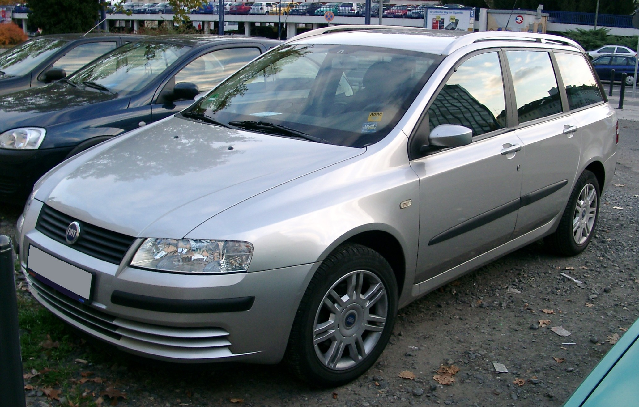 Fiat_Stilo Wagon, succesor of Fiat Marea Weekend